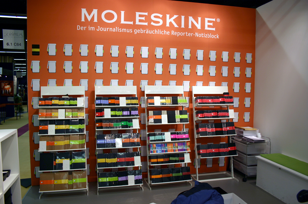 A selection of Moleskine notebooks.